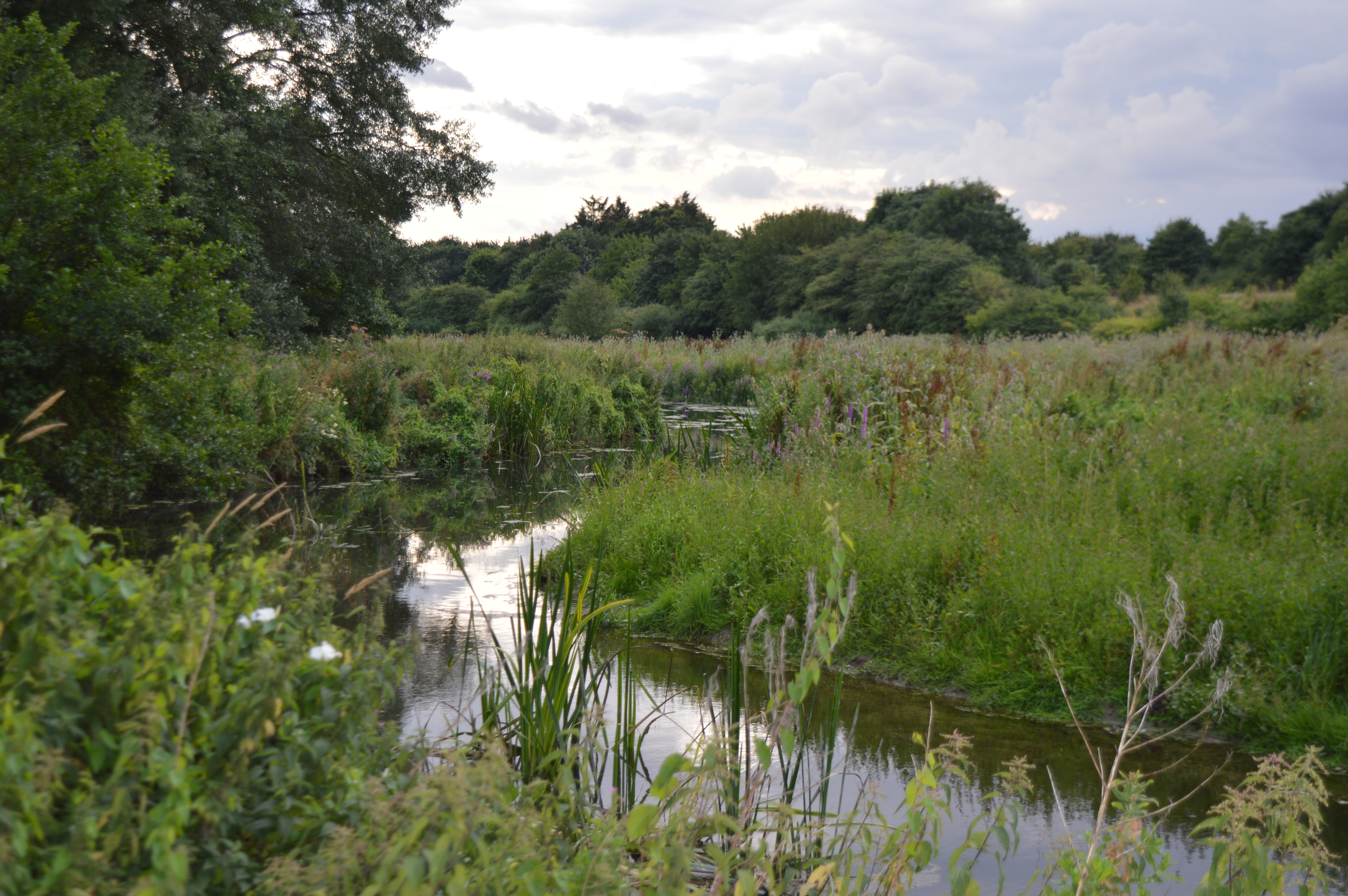 Chelmer Valley Riverside is a Local Nature Reserve along the River Chelmer and its bank in Chelmsford, Essex